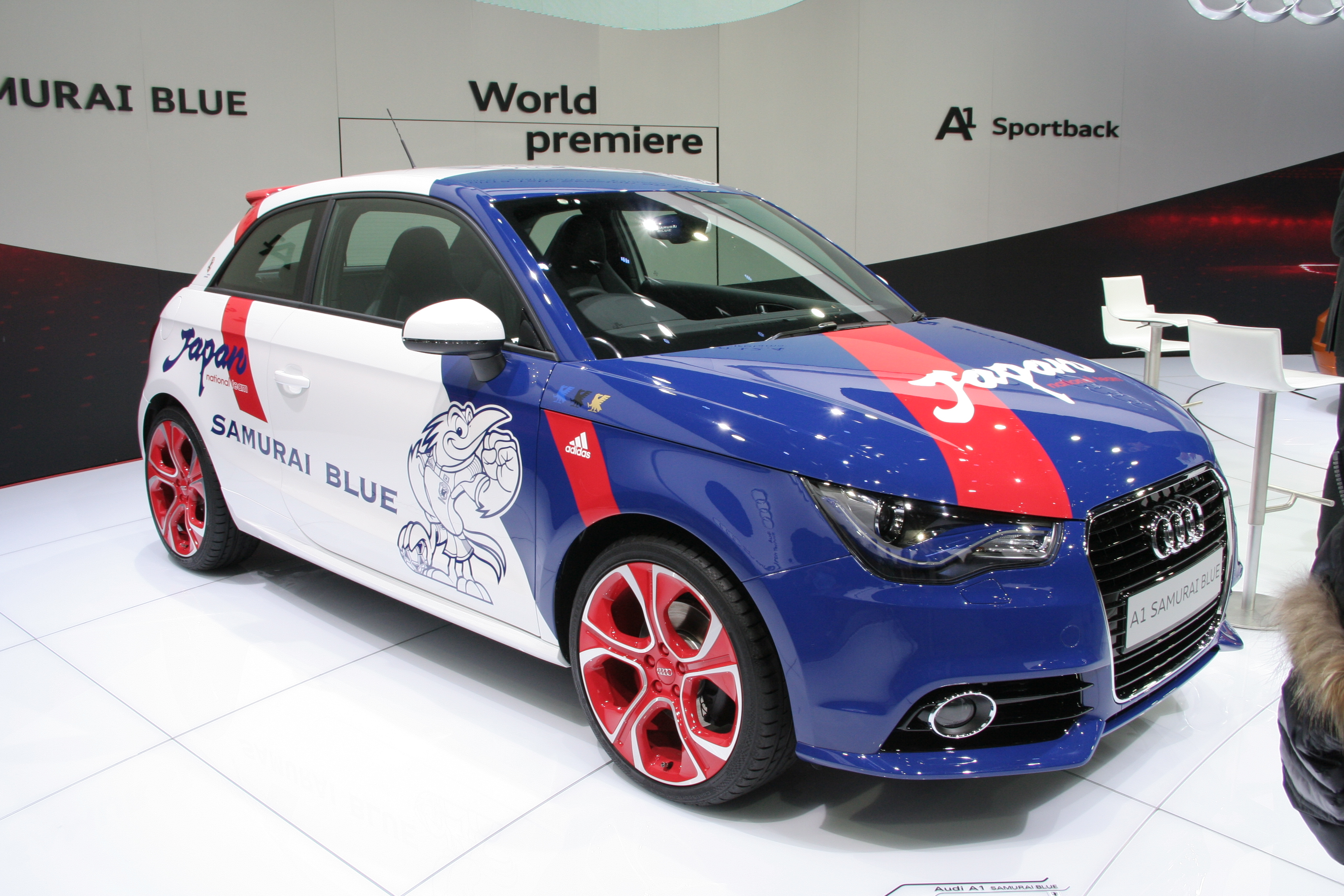 Audi A1 Samurai Blue in colors of Japanese national soccer team. Shot 2011.12.04 in Tokyo Motor Show.